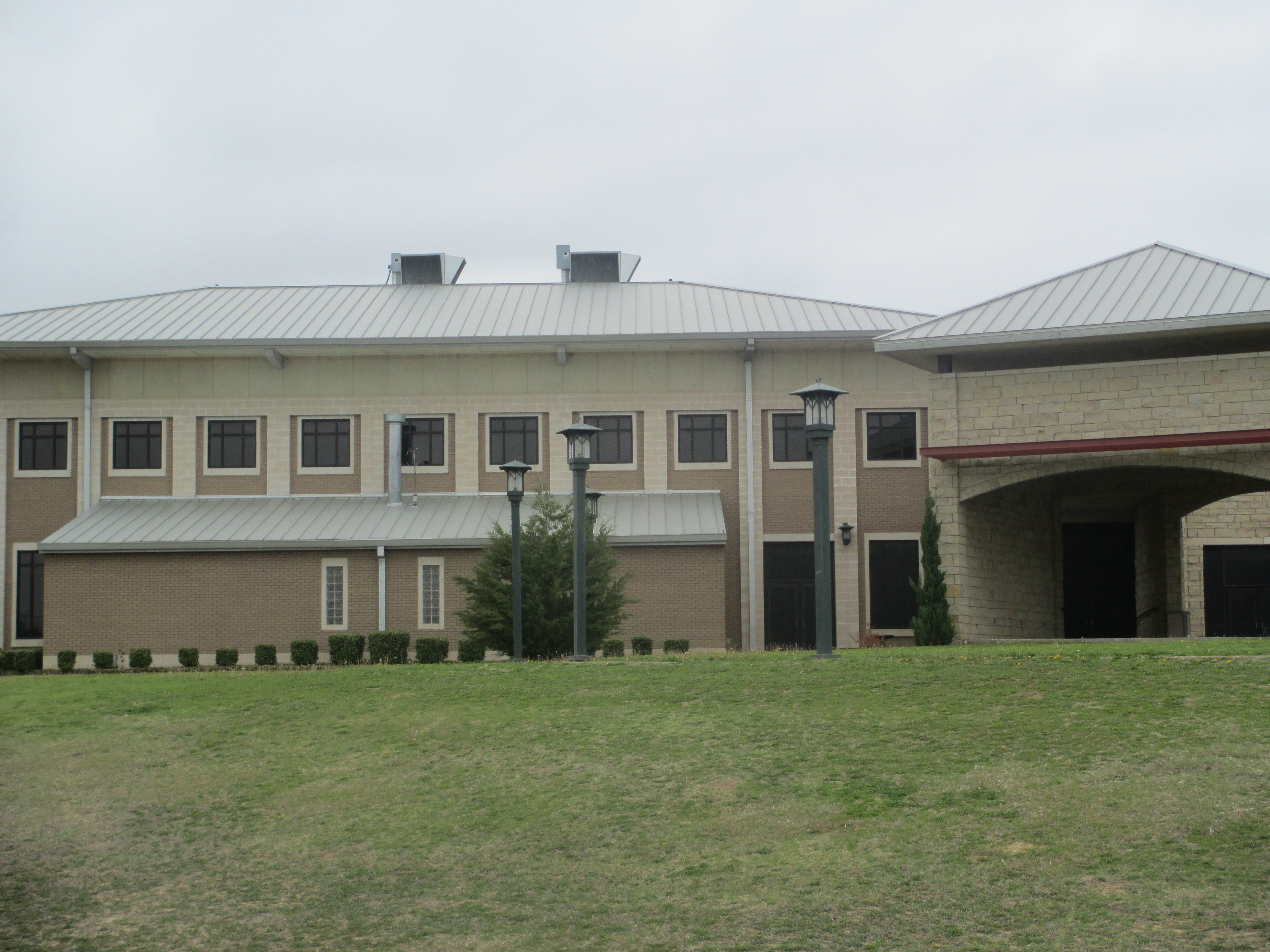 I took photo of Decatur, TX, Civic Center, with Canon camera, April 7, 2013. Billy Hathorn (talk) 19:34, 9 April 2013 (UTC)